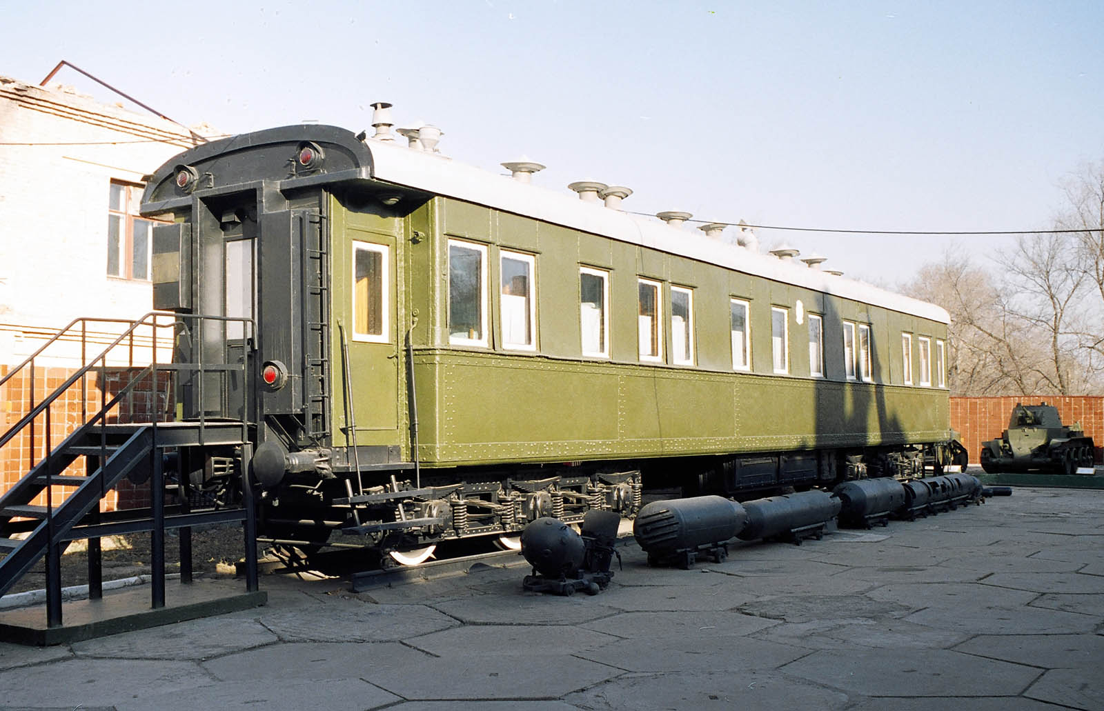 Saloon carriage of V. BlyukherArmoured saloon carriage of Blyukher on Military History Museum of the russian Eastern Military District in Khabarovsk